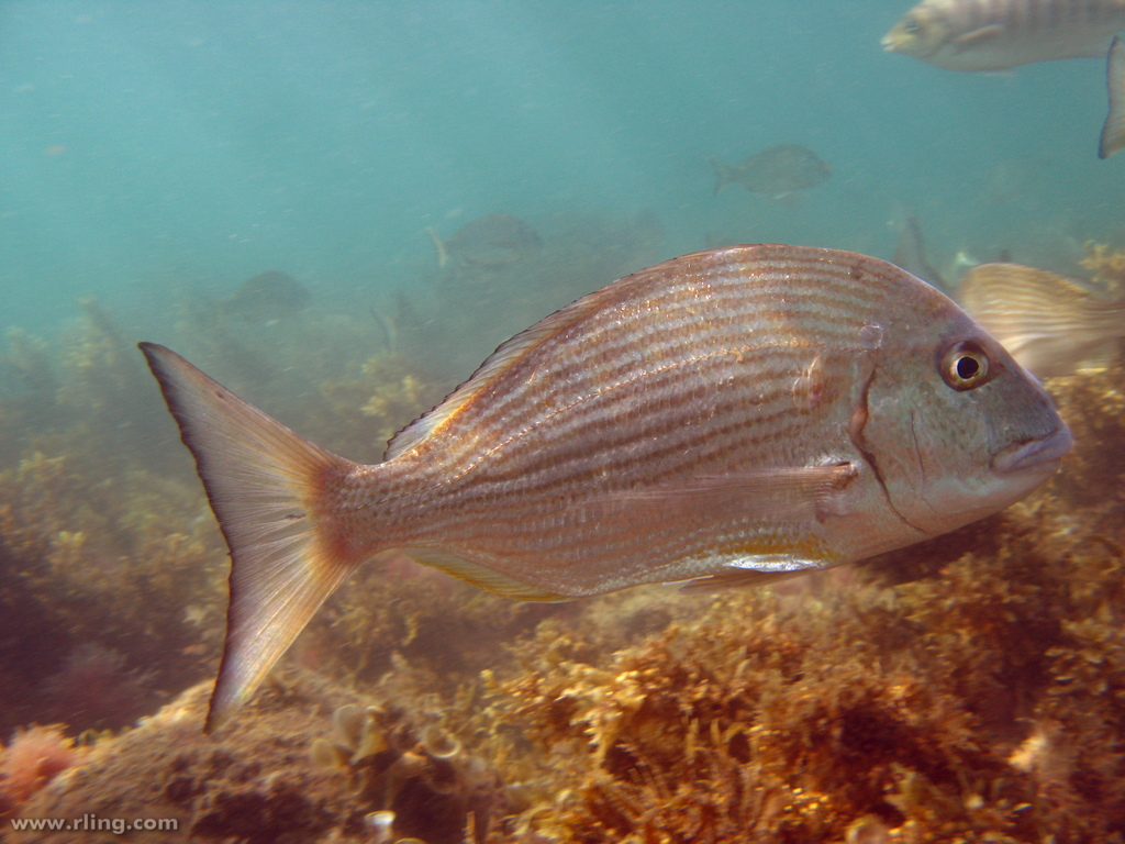 Profile of a tarwhine ( Rhabdosargus sarba). Fly Point, Port Stephens, NSW